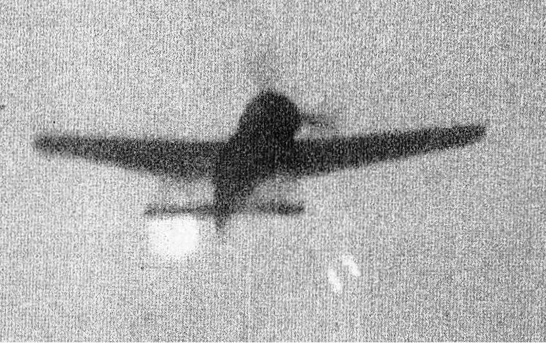 Erich Borounik's Fw 190 under fire from Johnson, 23 August 1943. Borounik was Johnson's 19th victory.